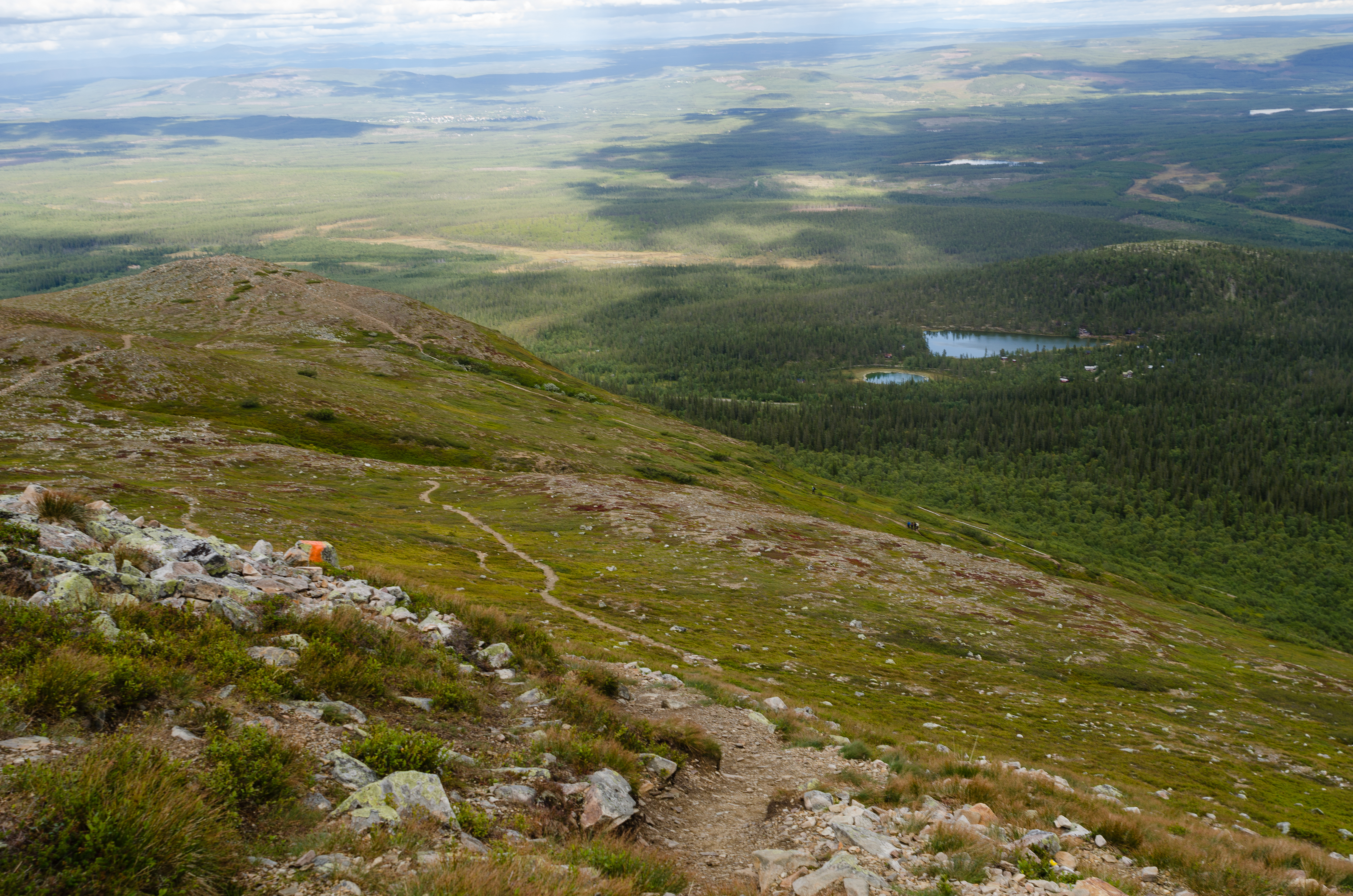 Mount Sonfjället 1,278 m (4,193 ft) above sea level. Sonfjället is a national park situated in Härjedalen, in central Sweden. It was established in 1909, making it one of Europe's oldest national parks